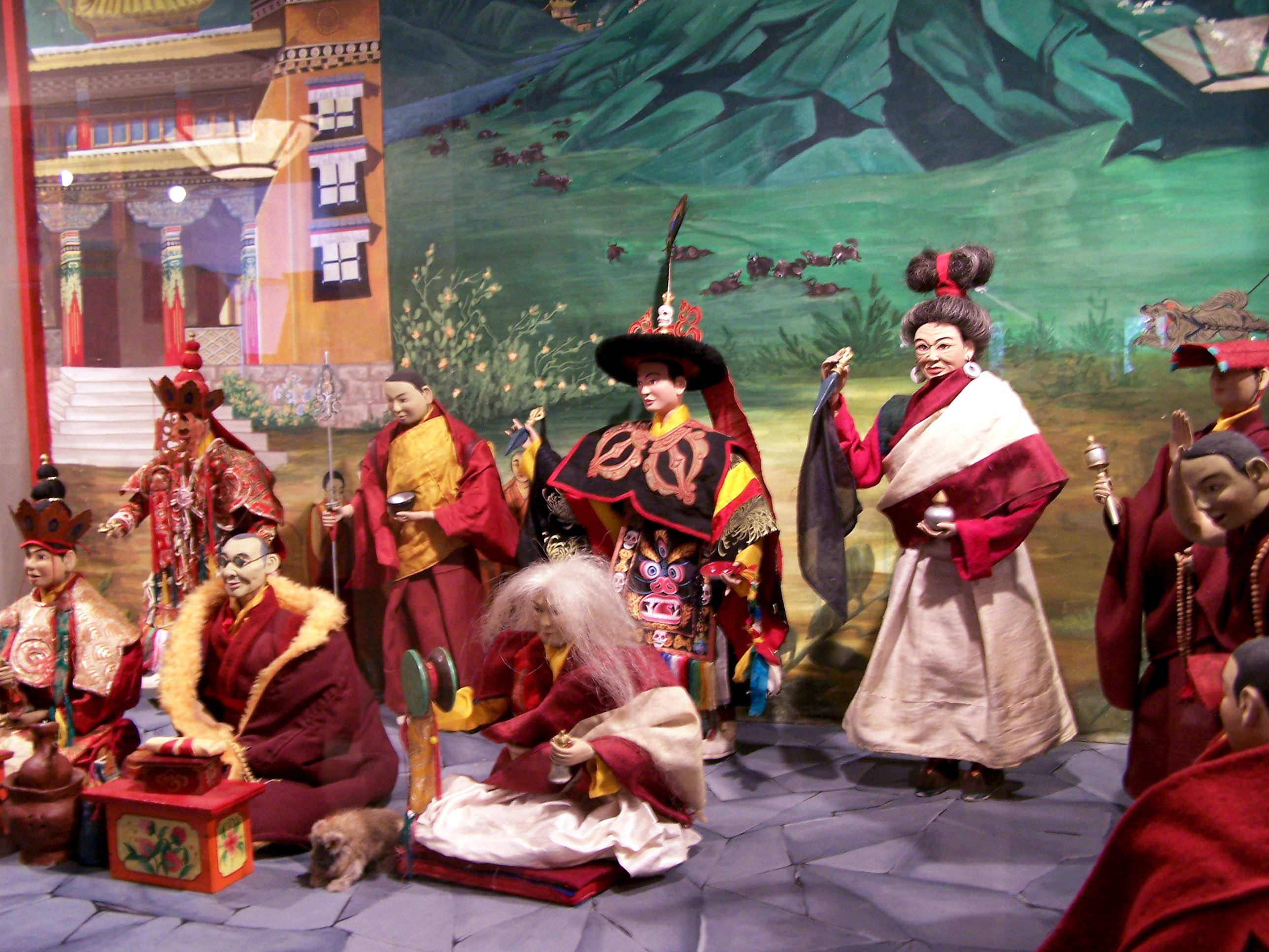 Tibetan lamas and priests, Losel Doll Museum, Norbulingka Institute, Dharamsala